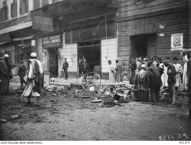 Original Australian War Memorial caption: "Cairo, burnt buildings and carts. Possibly the aftermath of a riot later known as the Battle of the "Wozzer", which took place in the street known as the Haret El Wasser near Shepheard's Hotel, Cairo 2 April Good Friday 1915"."